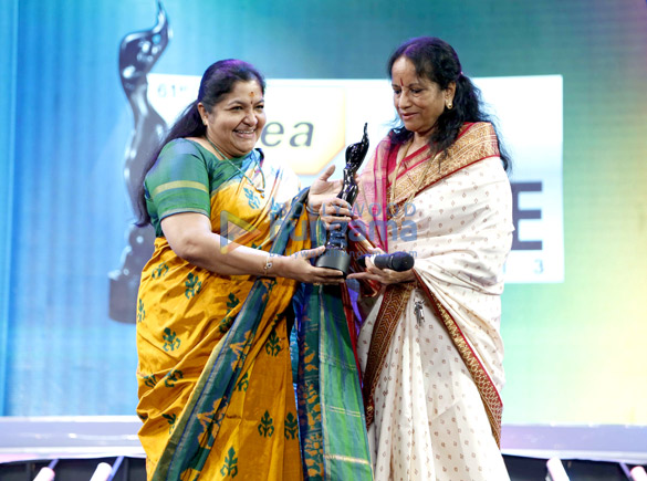 South Indian playback singer K. S. Chitra and Vani Jairam at the 61st Filmfare Awards South, 2014